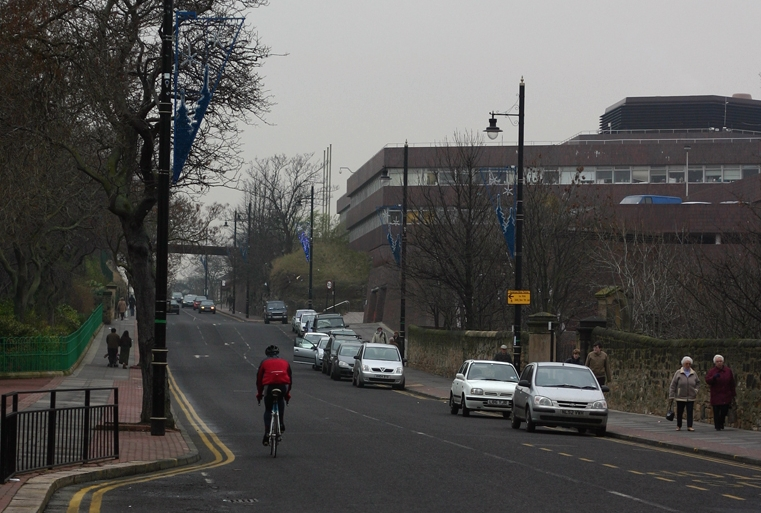 Sunderland Civic Centre to the right of the photograph, and Mowbray park to the left